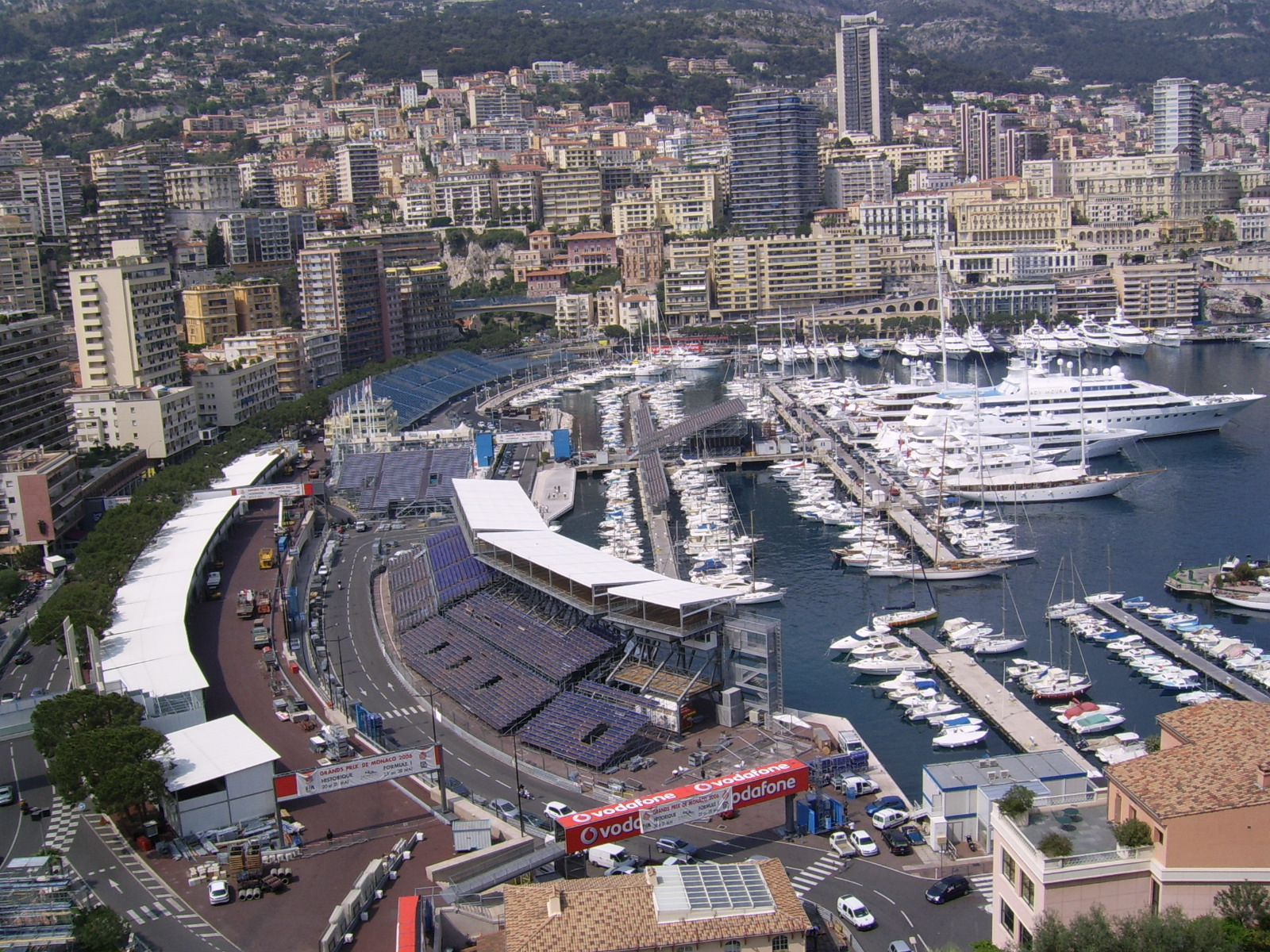 View of Monaco